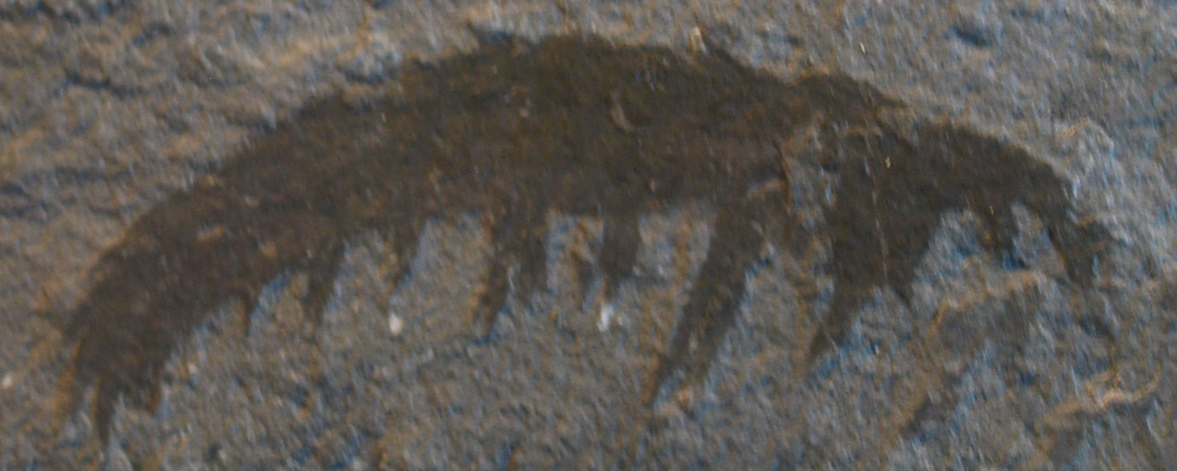 Detail of a fossil tentacle (in